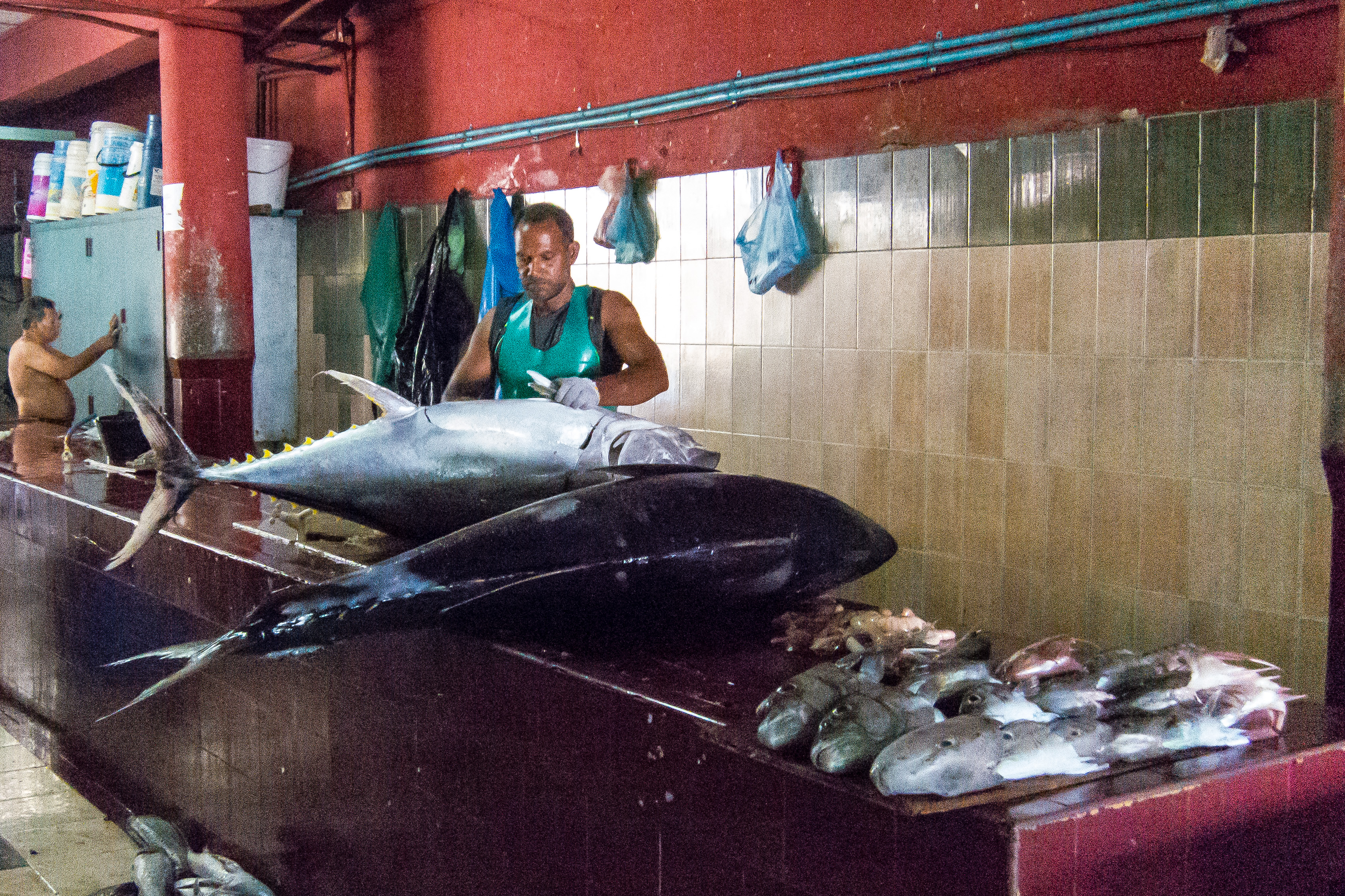 A fishmonger prepares to clean and butcher a pair of large fish in the fish market in Malé, the capital city of The Maldives. Male is the commercial capital of the Maldives and more than 100,000 people live in Male's 2.25 square mile area, making it one of the most densely populated islands in the world.